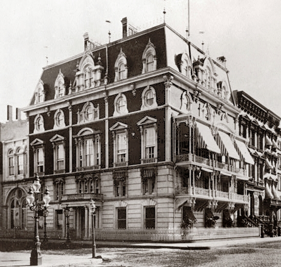 Leonard W. Jerome Mansion (built 1859), 32 East Twenty-sixth Street, New York, New York, NY, view from the VIEW FROM NORTHWEST. HABS NY,31-NEYO,77-6